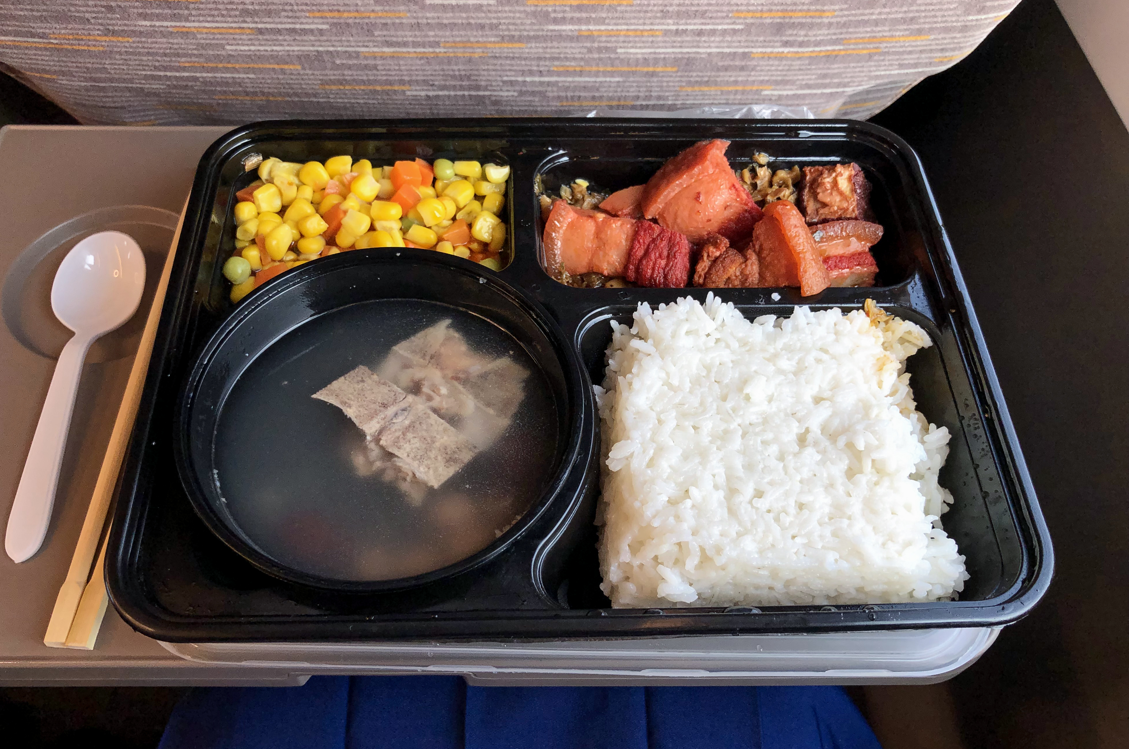 Ordered from Mao's Restaurant at Changshanan Station via 12306 WeChat gadget. The order of such "high-speed rail takeaways" should be placed at least 1 hour before the train leaves the station where one wants to order meals from. The "ekiben" is sold for CNY42, and a delivery fee of CNY8 is also paid - 50 in total, still a bit expensive than the meals sold on trains like this example.